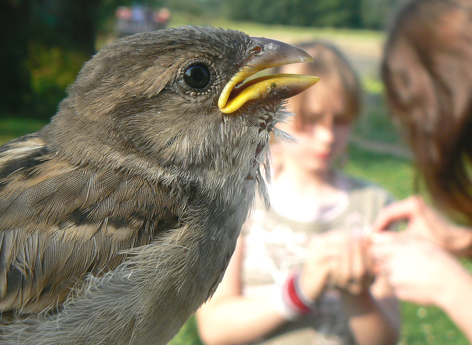 (again) we found two young sparrows, fallen from their nest. I'm holding the one on the left in my hand. My wife & daughter are looking at the other one